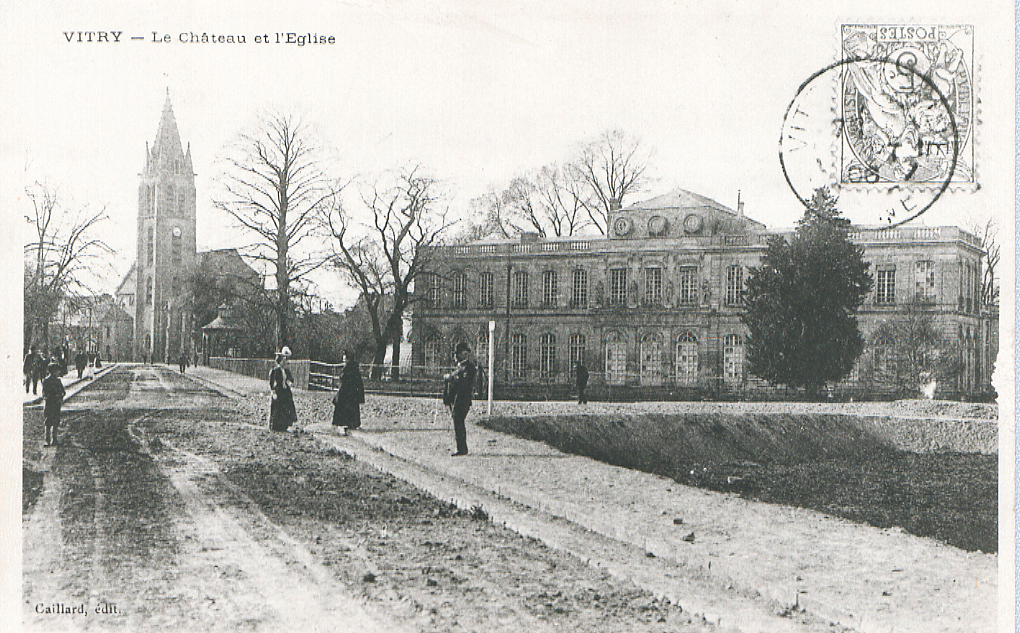 Castle of Vitry-sur-Seine from Danielle Casanova Avenue